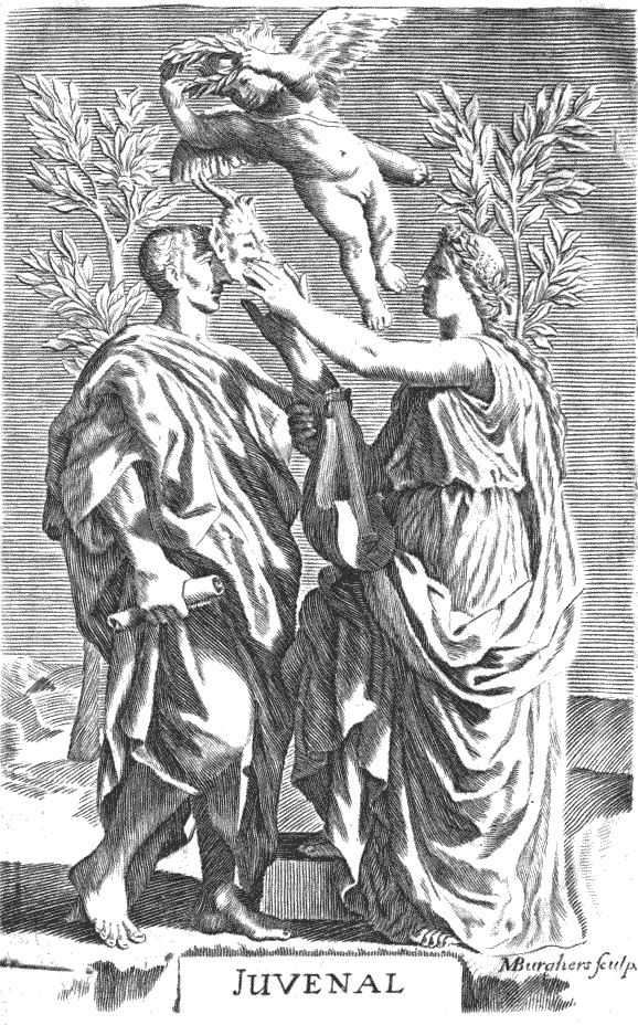 Frontispiece from John Dryden, et al., The Satires of Decimus Junius Juvenalis: And of Aulus Persius Flaccus, 4th ed. (London, 1711).